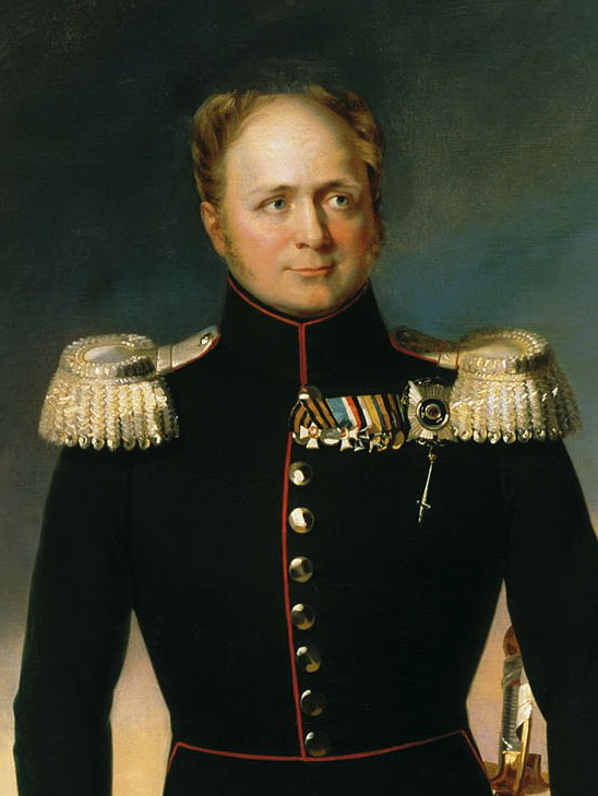 Tsar Alexander I. from russia, painted by George Dawe in 1824 (part, version with less environment of low interest at the topside.